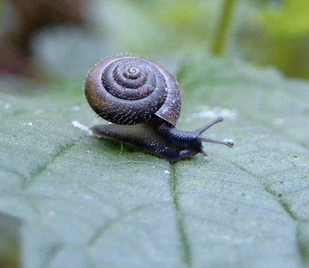 The landsnail Trochulus hispidus (Trichia hispida) on the leaf of Urtica dioica